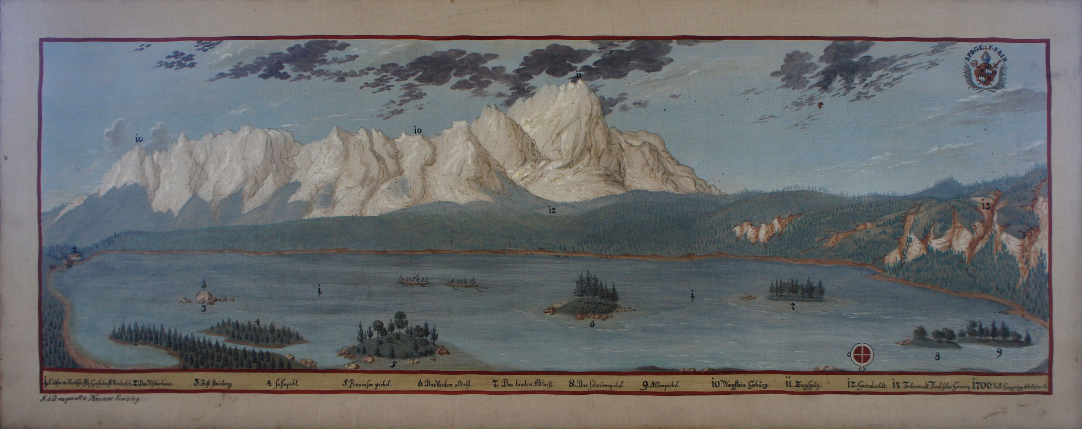 Panorama of Eibsee, near Garmisch-Partenkirchen Bavaria. Part of a series of 32 paintings executed by Valentin Gappnigg between 1698 and 1702. Gappnigg had been commissioned by the prince-bishop of Freising, Johann Franz Eckher von Kapfing und Liechteneck, to paint views of the various possessions of the prince-bishopric. While the core territories of Freising were located in Bavaria, it also included several far-flung enclaves located inside Tyrol, Styria, Carinthia, Lower Austria and Carniola (now Slovenia).